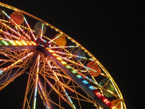 PNE theme park